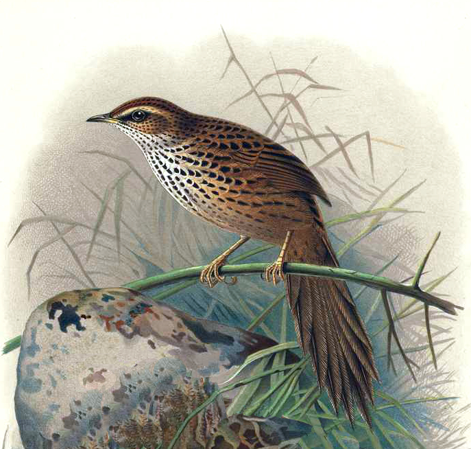 Megalurus punctatus, syn Bowdleria punctata, New Zealand Fernbird. Māori names: Mātātā, Kōtātā.